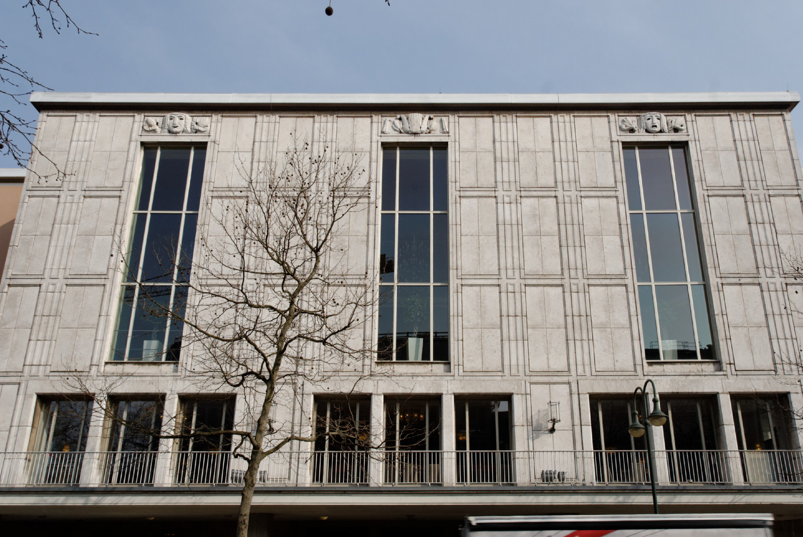 Opera house in Düsseldorf-Stadtmitte, Germany